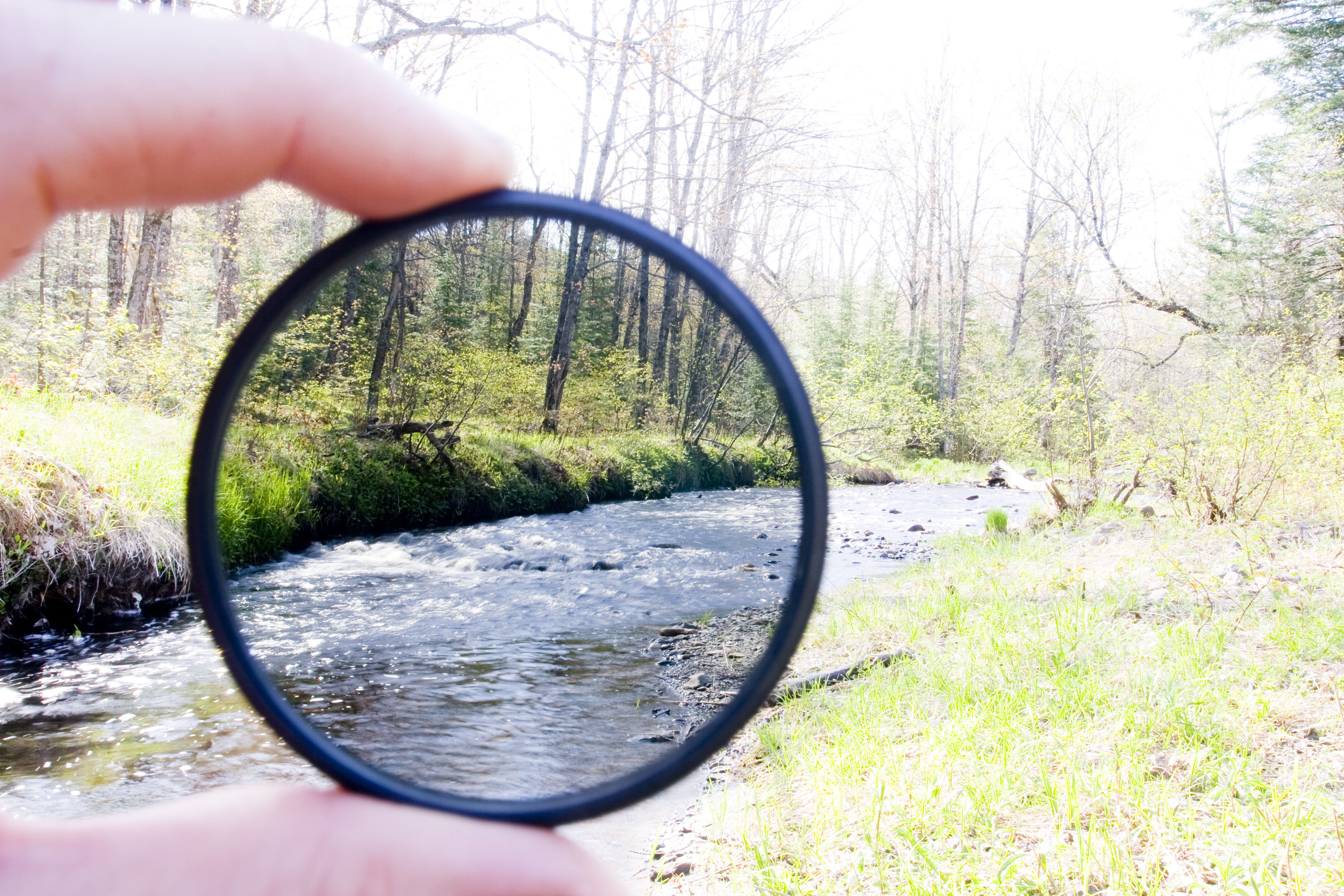 Hoya HMC Pro1 Neutral Density (ND) ND4 filter used to increase exposure time and accentuate water flow in daylight. This filter reduces the amount of light by 2 stops. Picture taken while hiking along Silver River and the Silver Falls of Upper Peninsula, Michigan.